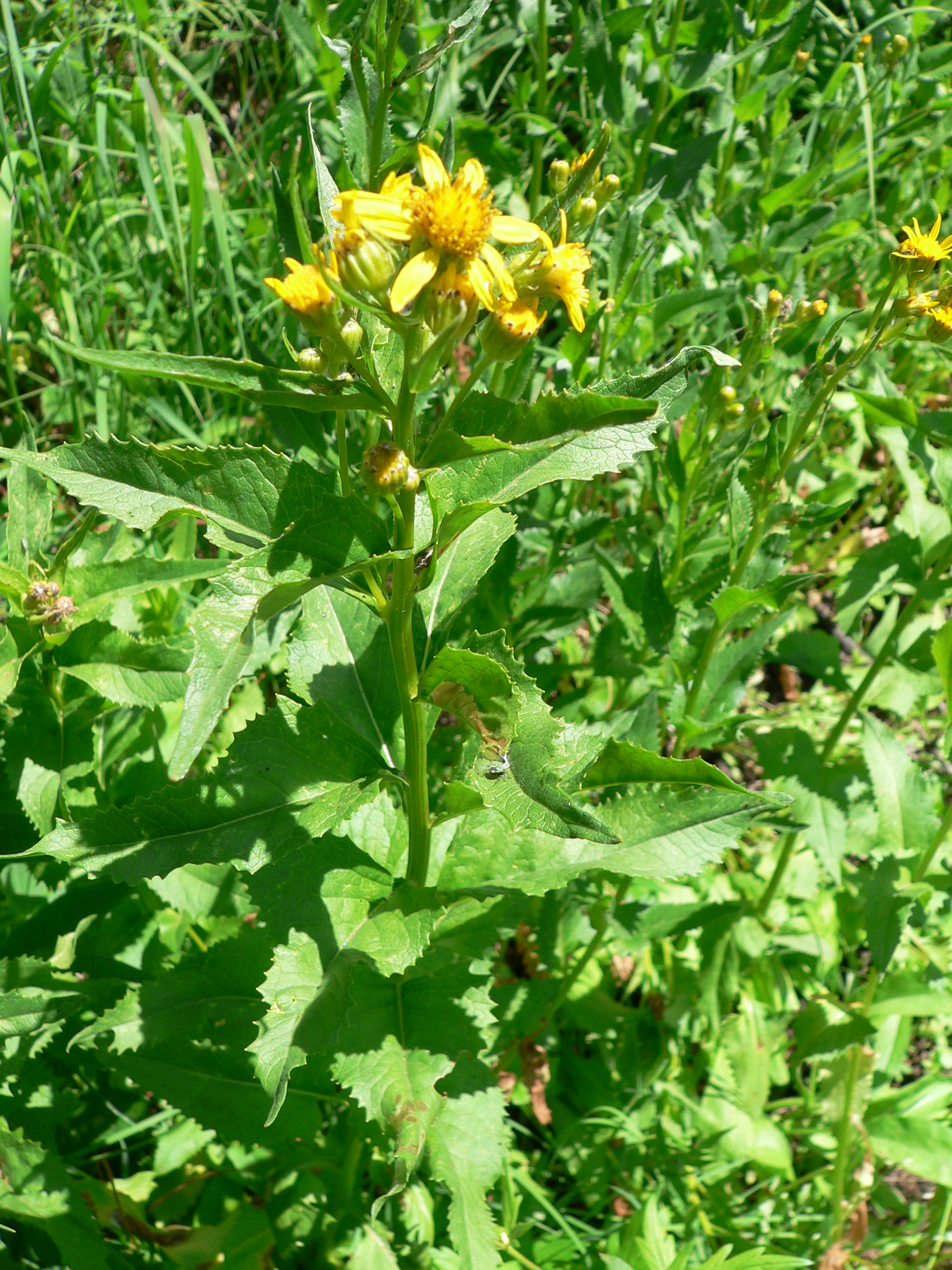 Senecio triangularis, Castle Crest, Crater Lake National Park, Oregon, USA